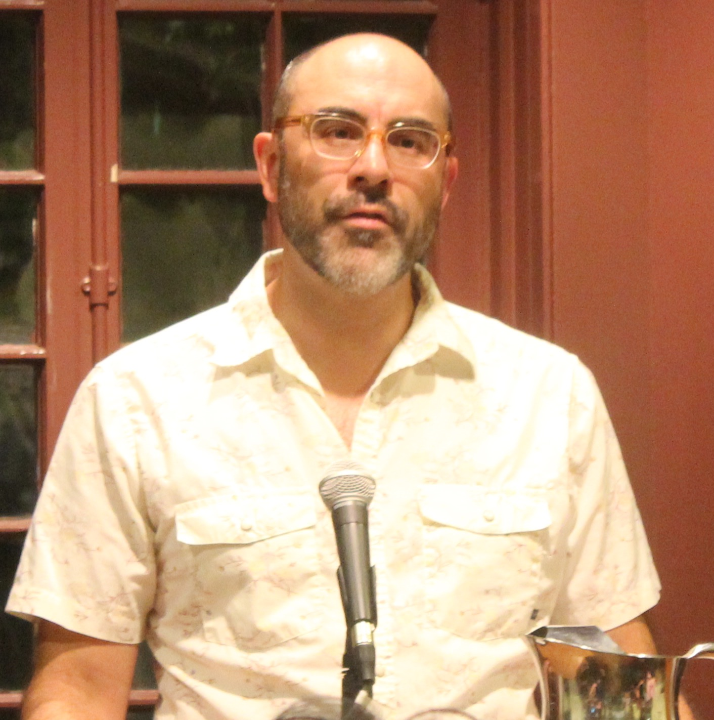 American writer and musician J. Robert Lennon speaking at the Kelly Writers House in Philadelphia